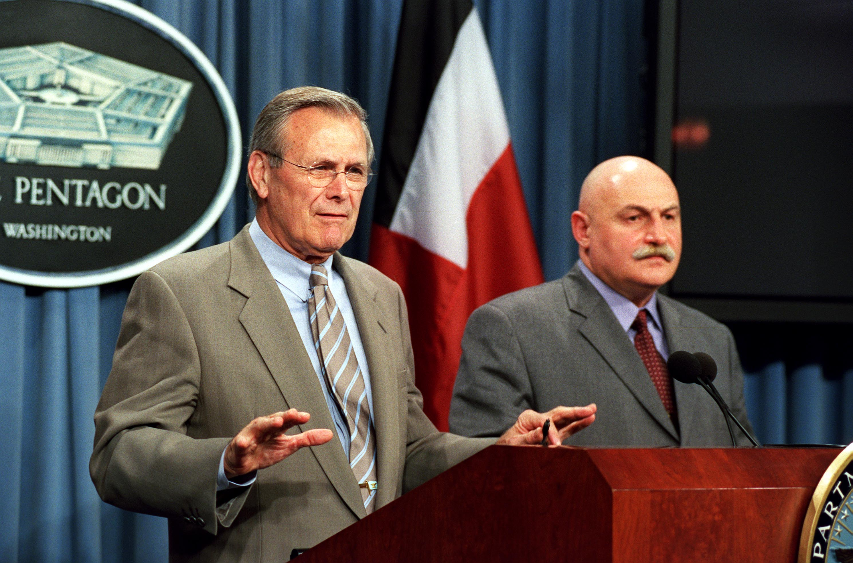 Secretary of Defense Donald H. Rumsfeld (left) responds to a reporter's question during a joint press conference with Georgian Minister of Defense David Tevzadze in the Pentagon on May 7, 2002. Rumsfeld and Tevzadze met earlier to discuss the war on terrorism and regional security issues.